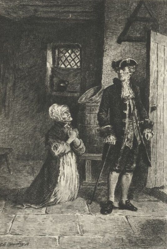 "Lord Glenallen [sic] and Elspeth"